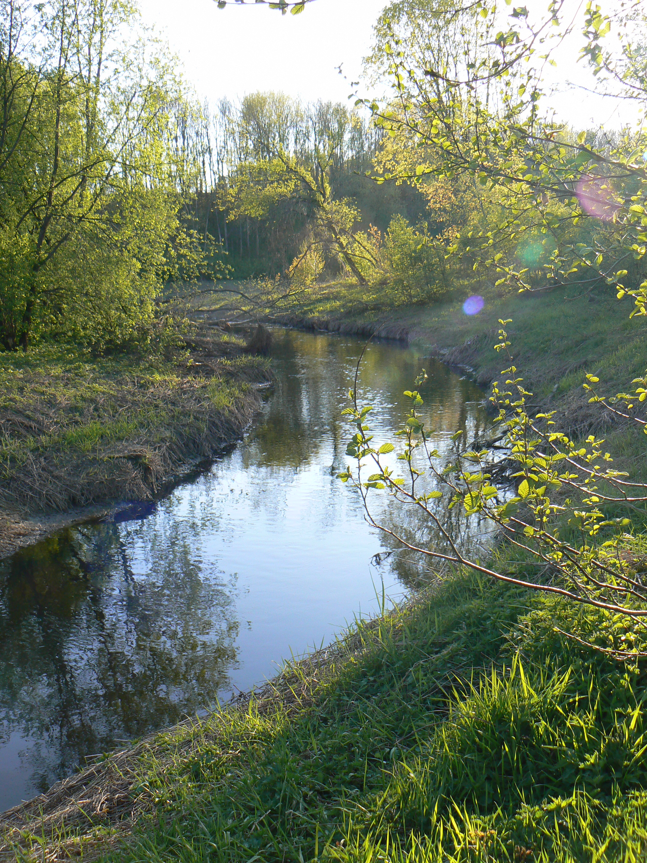 River Tenžė near Kretinga